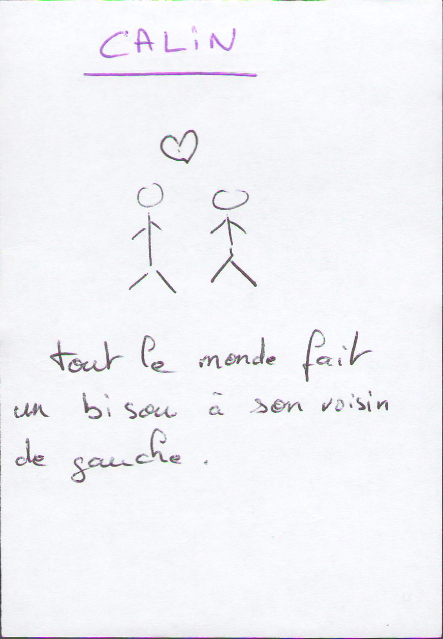 A card from the 1000 blank white cards game (Cuddle)